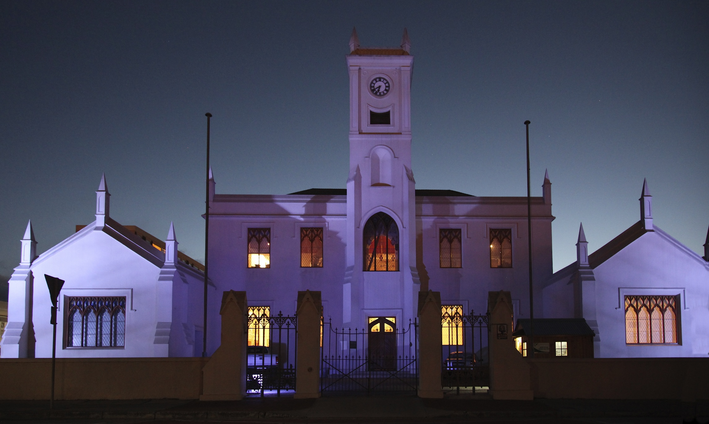 Old Grey Institute, Belmont Terrace, Port Elizabet This media shows a South African Protected Site with SAHRA file reference 9/2/073/0021.